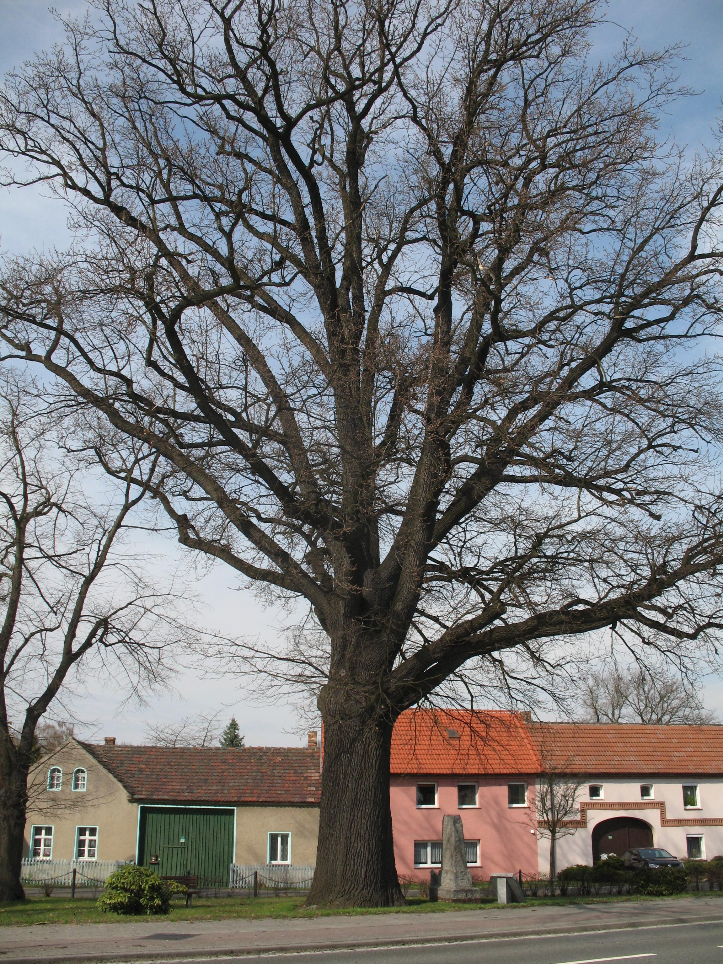 Oak and buildings in Elsterheide-Nardt in Saxony, Germany